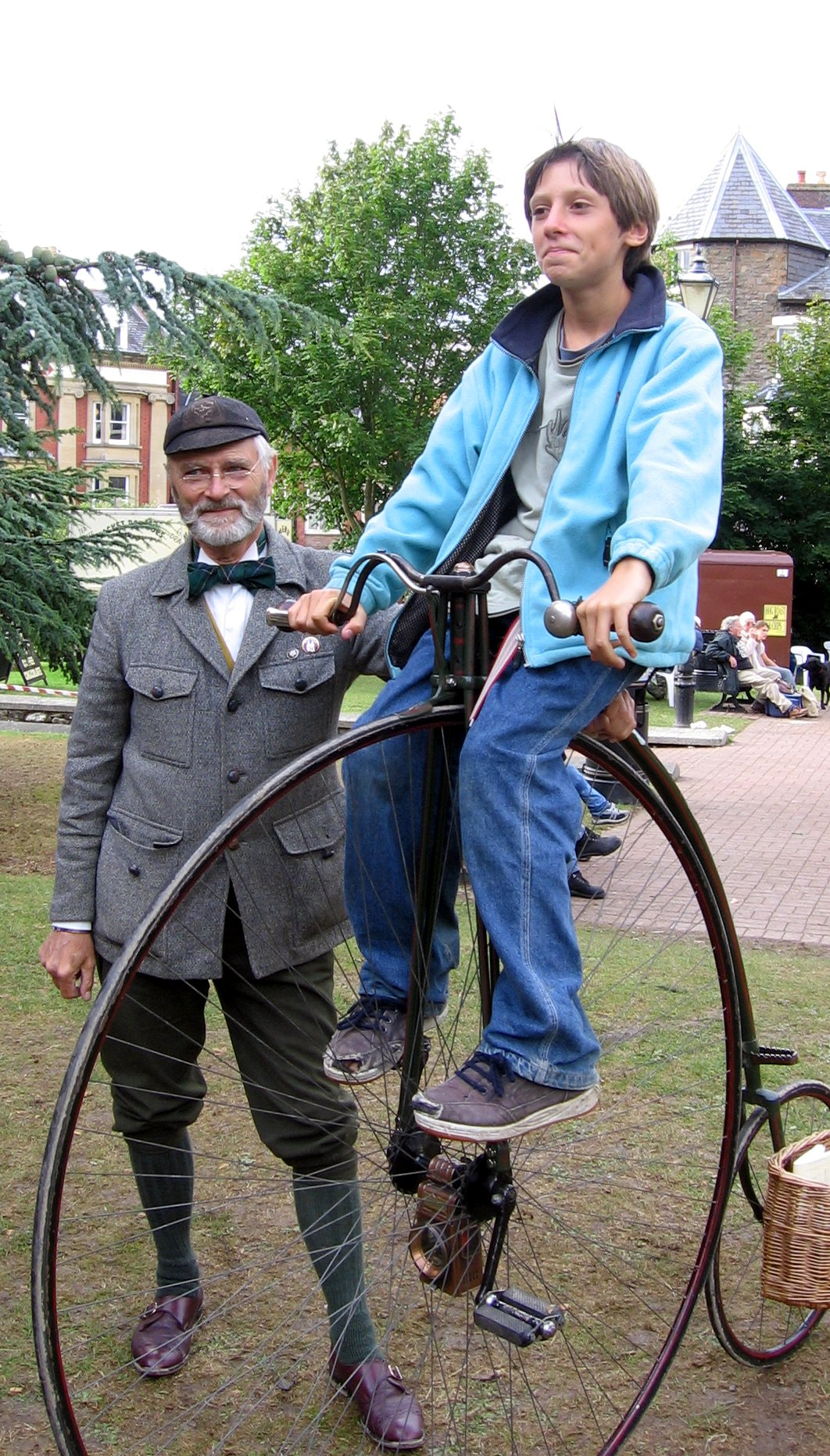 modern reproduction of penny-farthing bicycle with owner/constructor and a rider at Victorian Festival, Llandrindod Wells